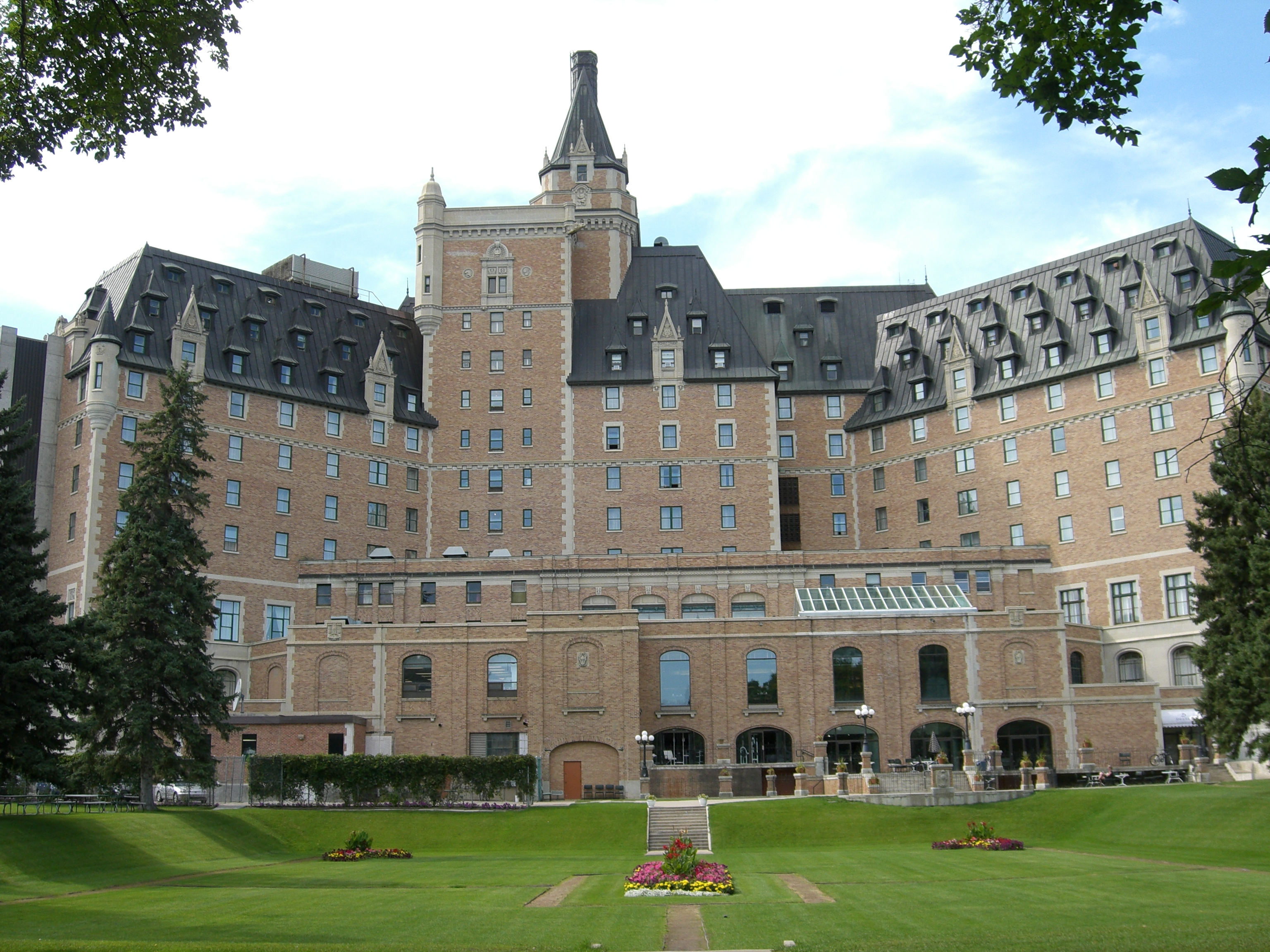 Hotel Bessborough from the rear.